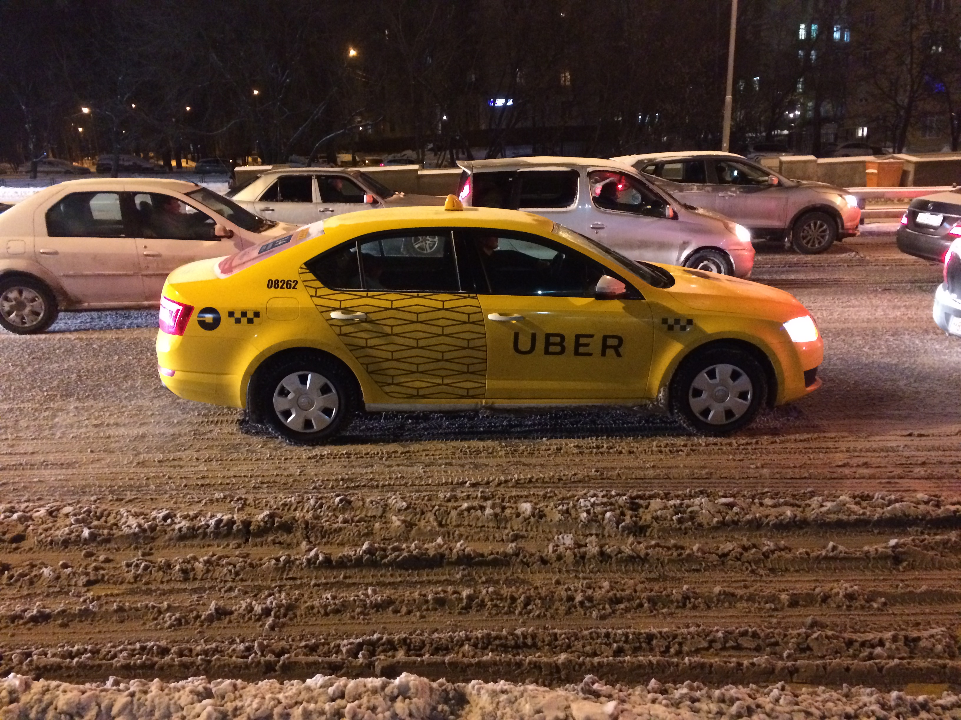 Yellow Uber taxi in Moscow, Russia.